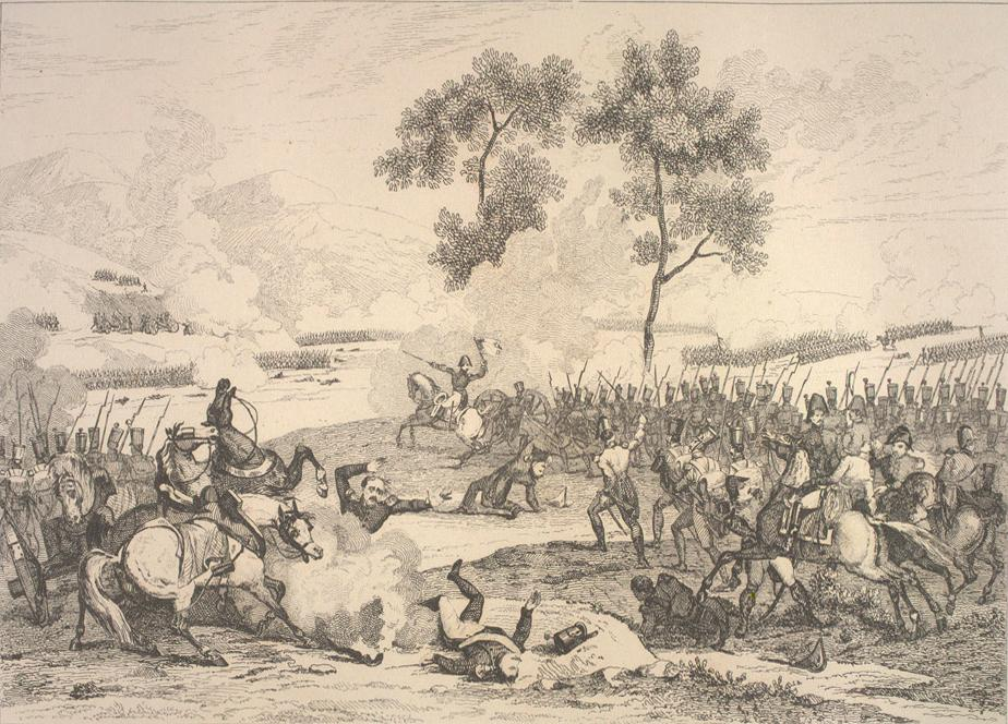 Battle of Polotsk in 1812. Russian Napoleon war of 1812. //FRANCE MILITAIRE // Martinet delt. // Réville sculpt. // 13.